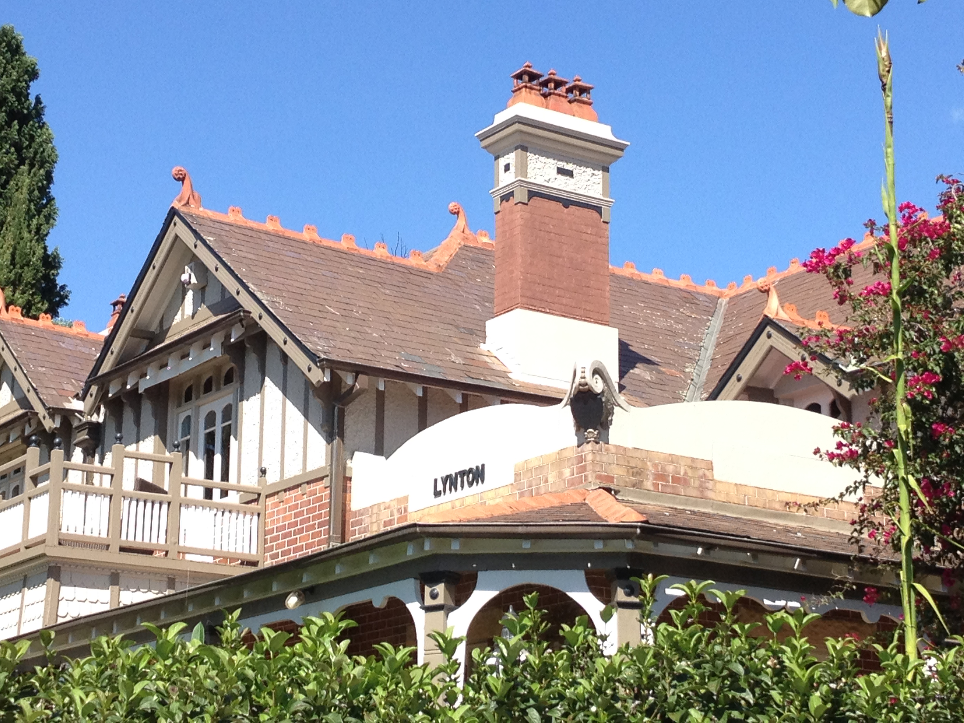 Lynton is a heritage listed home in Burwood, New South Wales.